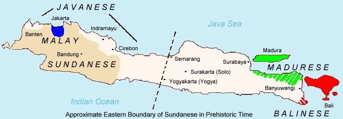 Javanese language shown in white. People in Banyuwangi (noted in the red-marked area on the bottom right of Java island) are actually uses Osing language (combinations between Javanese and Maduranese), not Balinese, although Balinese is also common because some Balinese also lived in that area.